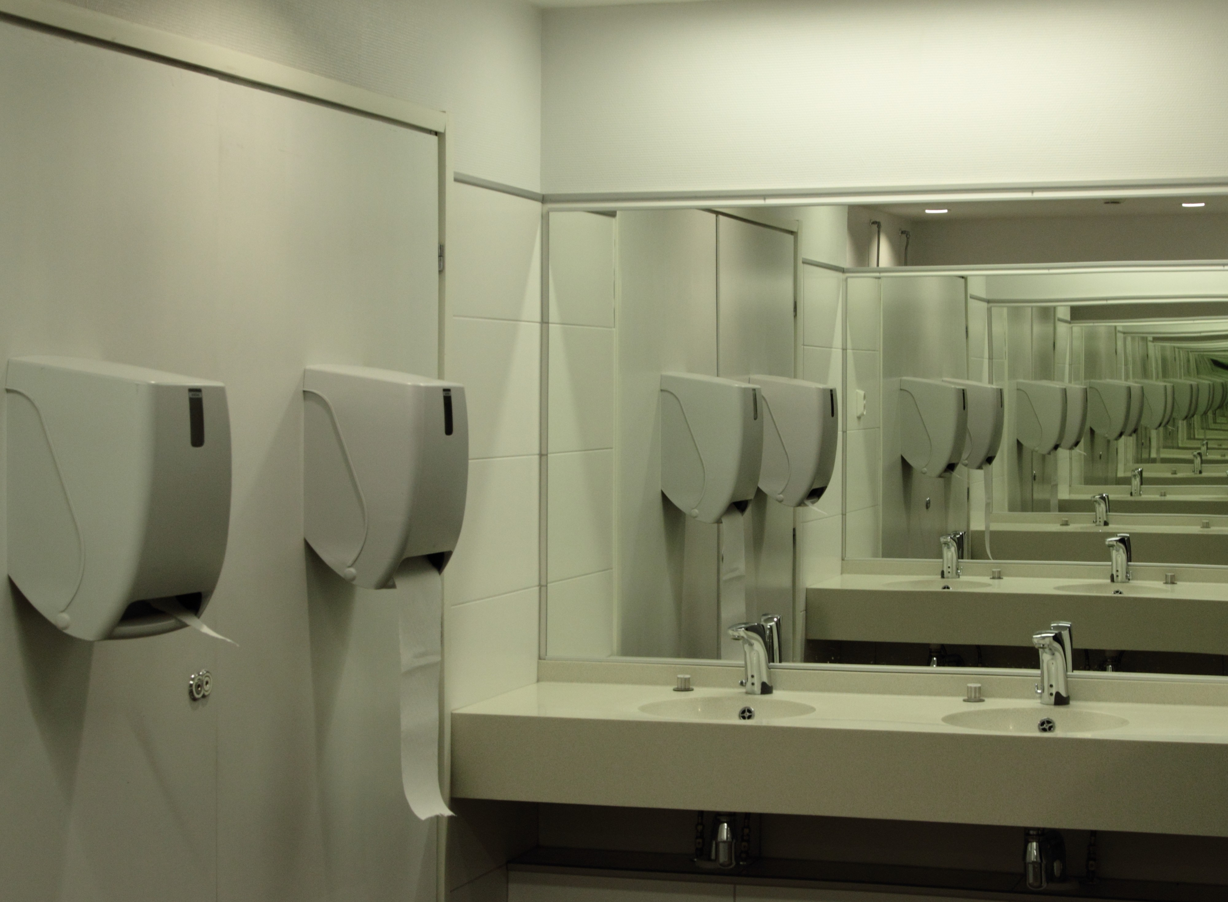 Paper towel dispensers in men's toilet in the Kemi Cultural Center.